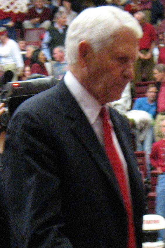 Lute Olson, former coach of the Arizona Wildcats men's basketball team.